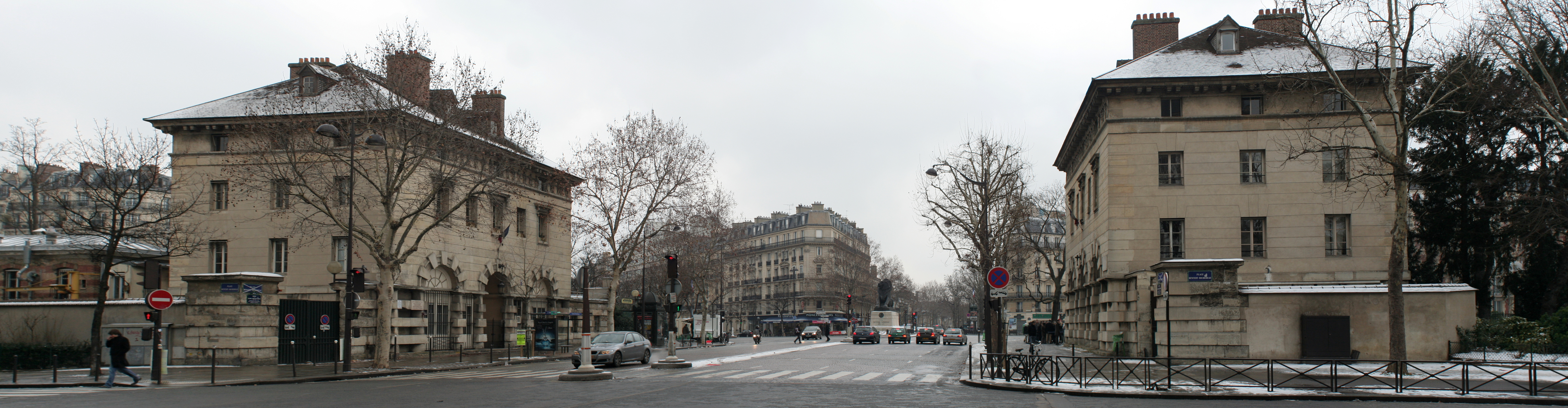 Barrière d'Enfer, a former toll in Paris, before the French Revolution, Denfert-Rochereau square, Paris, France.